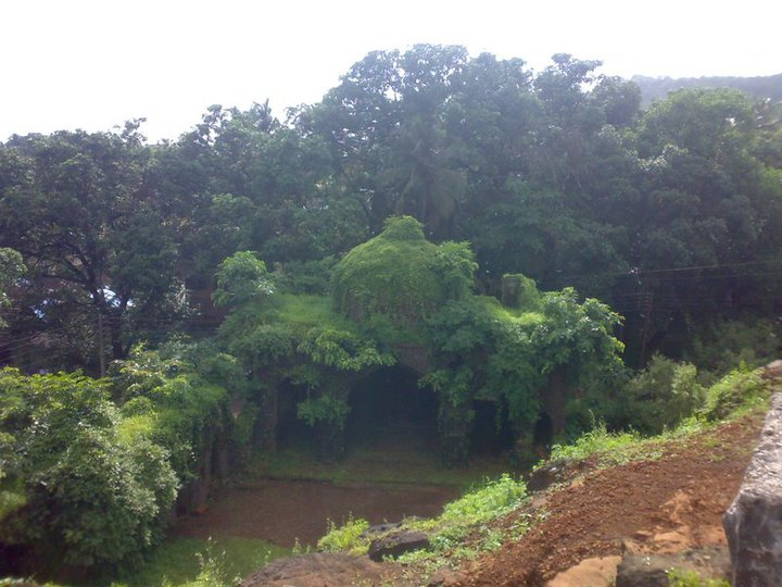 Mosque at the graveyard also known as ALI MASJID.